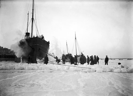 1918, Miðbakki, Reykjavíkurhöfn. Frostaveturinn mikli, skip fast í ís. Verið að saga strandferðaskipið Sterling út úr ís á Reykjavíkurhöfn. Ljósmyndari / Photographer: Magnús Ólafsson Format: Glerplata / Glass negatives, 8 x 12 cm. Höfundarréttur / Rights Info: Enginn þekktur höfundarréttur / No known restrictions on publication. Geymsla / Repository: Ljósmyndasafn Reykjavíkur / Reykjavík Museum of Photography, Tryggvagata 15, 6. Hæð / 6th floor Númer myndar / Call Number: MAÓ 26 Myndavefur Ljósmyndasafnsins / Reykjavík Museum of Photography´s photoweb: ljosmyndasafn.reykjavik.is/fotoweb/Grid.fwx